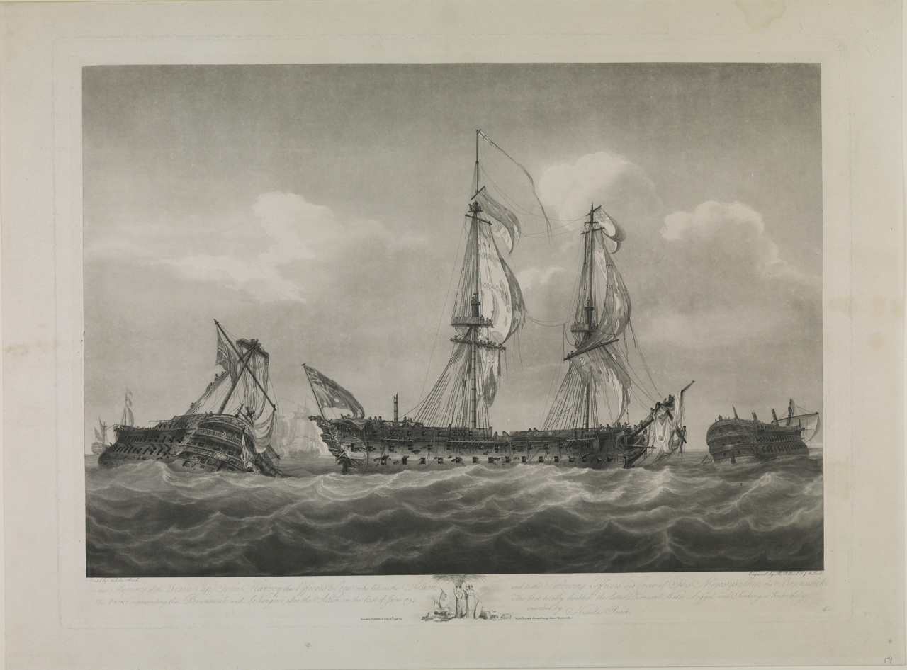 To the Memory of the Brave Capt John Harvey... of His Majesty's ship the Brunswick... after breaking the Enemy's Line on the 1st of June 1794 Grappled and engaging Le Vengeur with her Starboard Guns, and totally dismasting L'Achille... This Print representing the Brunswick and Le Vengeur after the action on the first of June 1794. The first totally disabled, the latter Dismasted, Water-Logged and Sinking; aquatint & etching